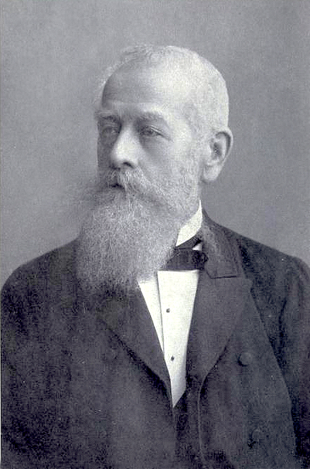 Poseł do Rady Państwa i Sejmu Krajowego